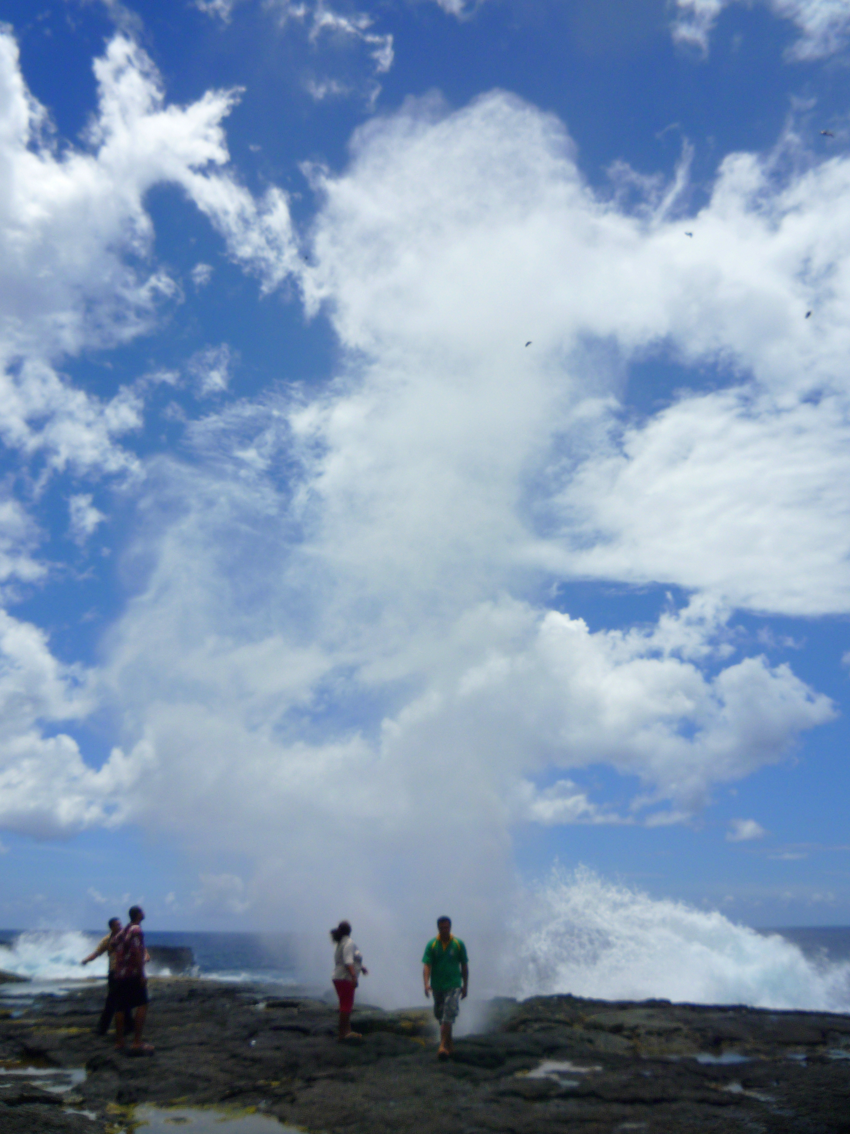 Blowholes at Taga village on the coast of Savai'i island in Samoa.